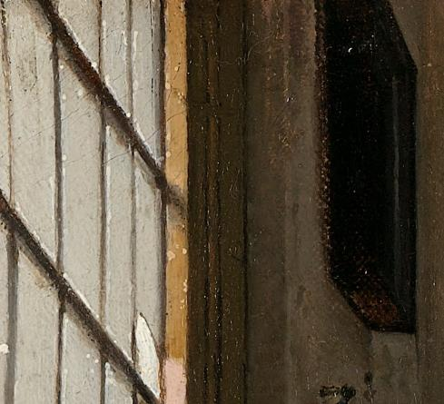 Detail of the broken window